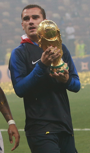 French footballer Antoine Griezmann holding the FIFA World Cup Trophy after the tournament's final match on 15 July 2018.